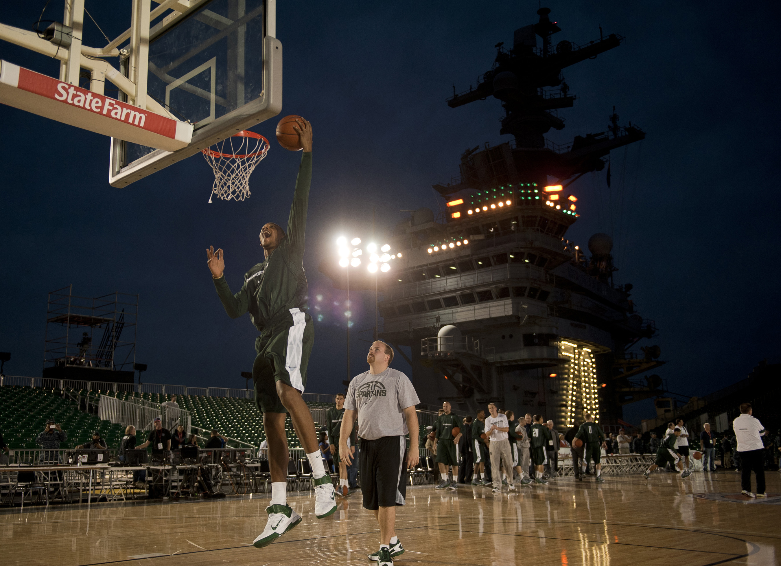 SAN DIEGO (Nov. 10, 2011) Michigan State University basketball player Adreian Payne dunks during a practice in the basketball arena on the flight deck aboard Nimitz-class aircraft carrier USS Carl Vinson (CVN 70). Carl Vinson is hosting Michigan State University and the University of North Carolina for the inaugural Quicken Loans Carrier Classic basketball game on Veteran's Day, Nov. 11. (U.S. Navy photo by Mass Communication Specialist 2nd Class James R. Evans/Released)